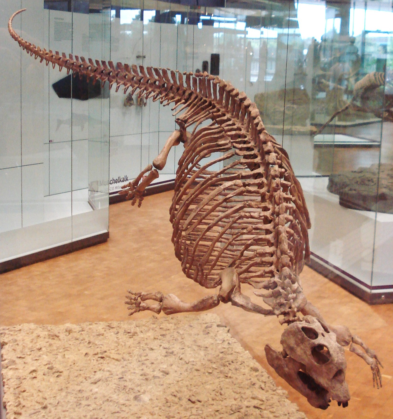 fossil of placodus